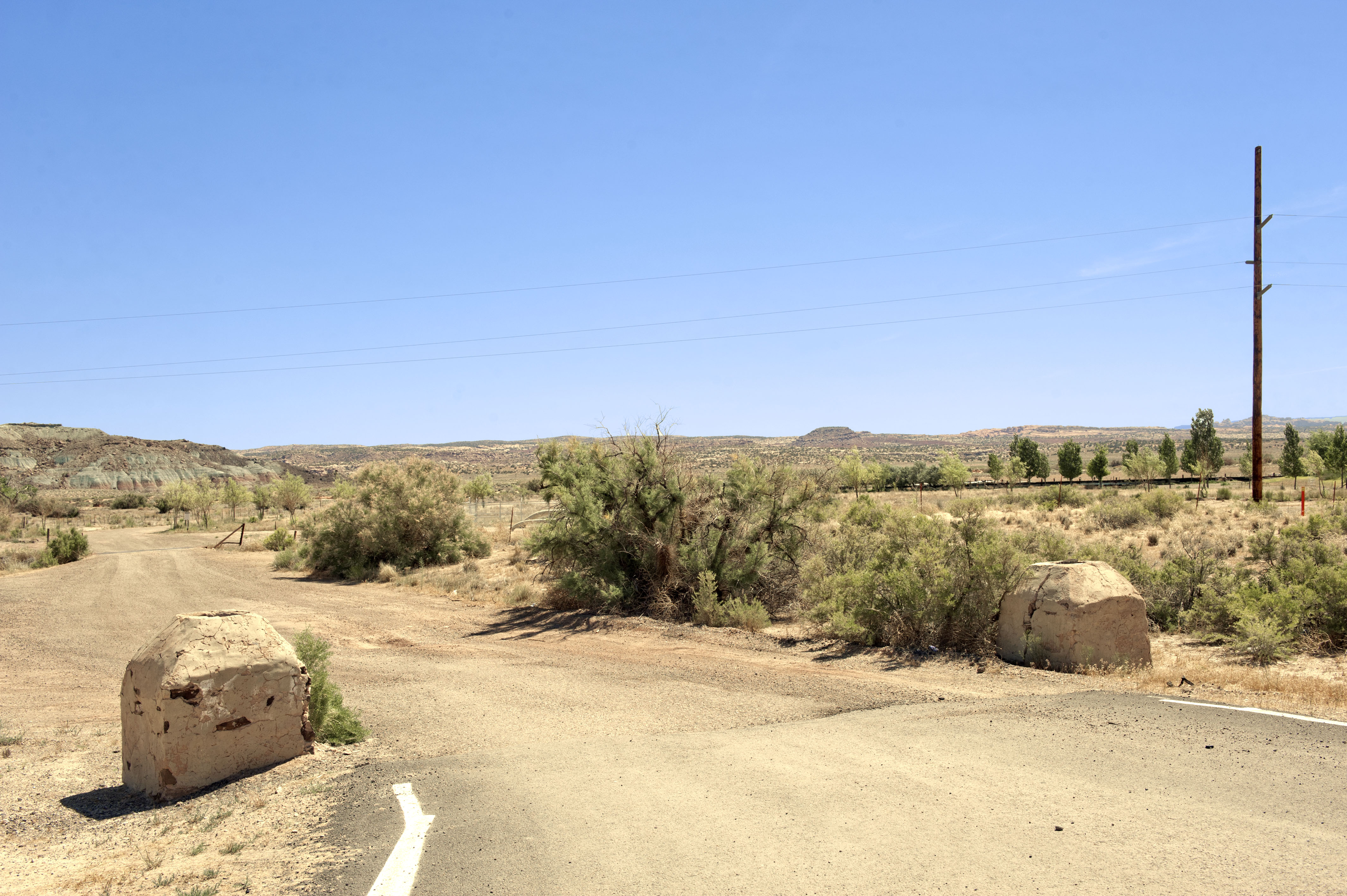 Dalton Wells was built as a Civilian Conservation Corps camp and later used as a relocation center for Japanese Americans during WWII. Little remains today. It is listed on the National Register of Historic Places.